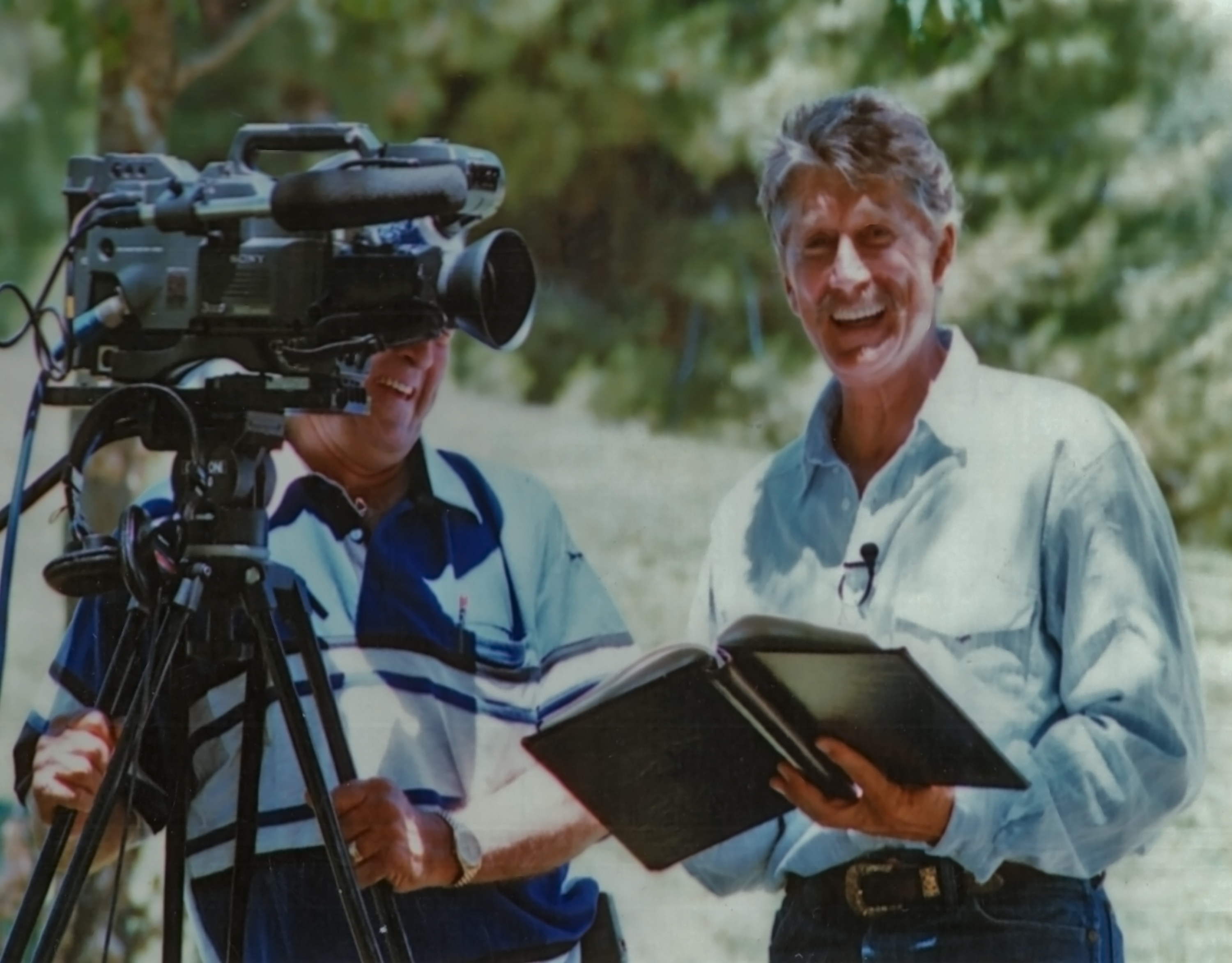 Actor Alex Cord on location (1993) performing the voice-over and on-camera work for the public television special, The Paddlefish: An American Treasure.